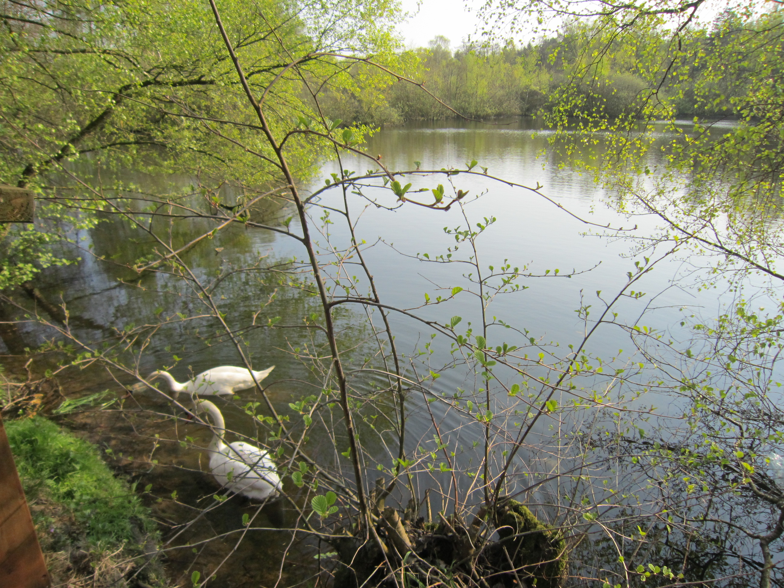 Lethe reservoir near Ahlhorn (Lower Saxony)